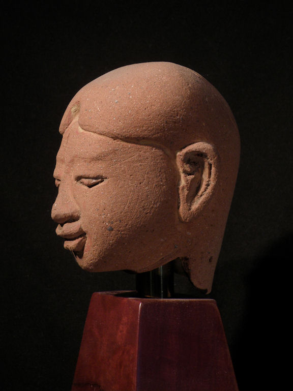 This terracotta head is hollow and more highly fired than Majapahit figures usually are. It has a wonderfully expressive mouth and clear detailed ears. He/she is interesting in that the hair-style s very simple and there is no jewellery, no ear ring. It is also a little larger than the heads commonly found. From the collection of Balique Arts of Indonesia. Ht 9 x 6.5 x 7.5cm